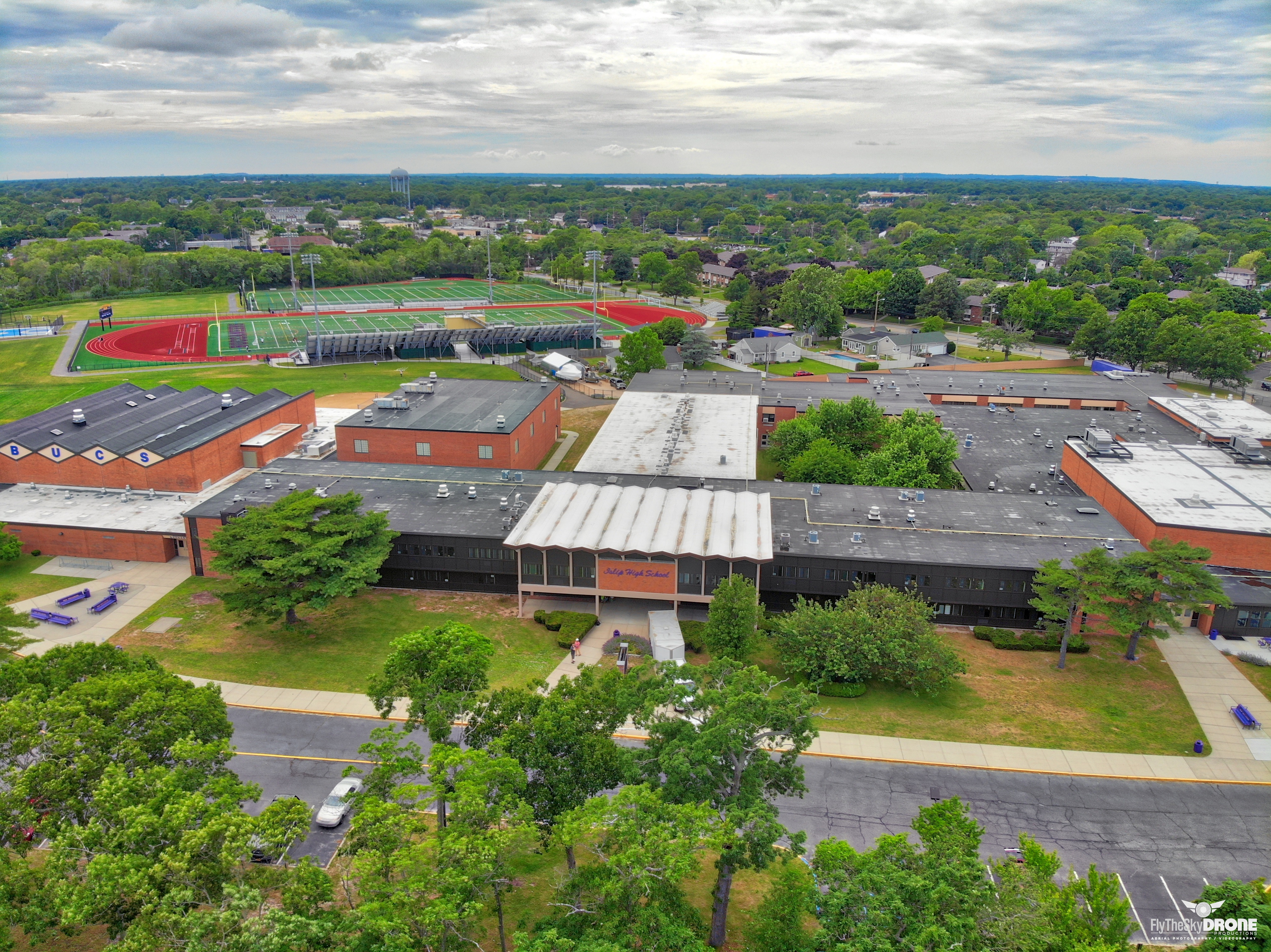 Islip High School ("Birds-eye view")